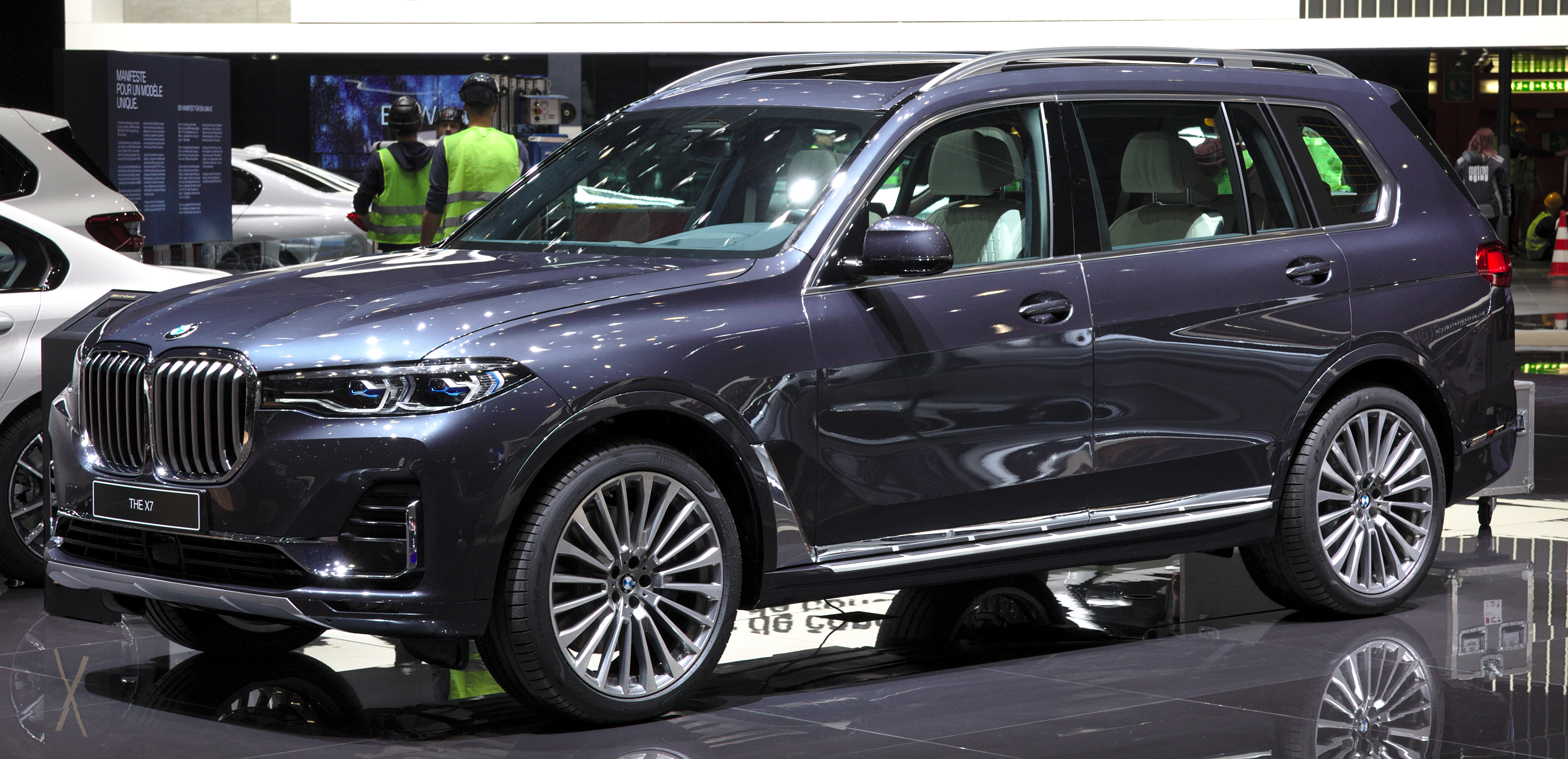 BMW X7 at Geneva Motor Show 2019